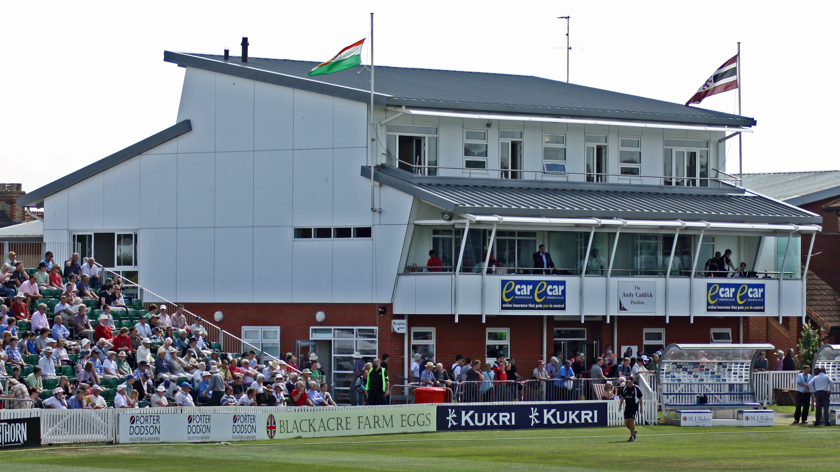 The Andy Caddick Pavilion at the County Ground, Taunton.